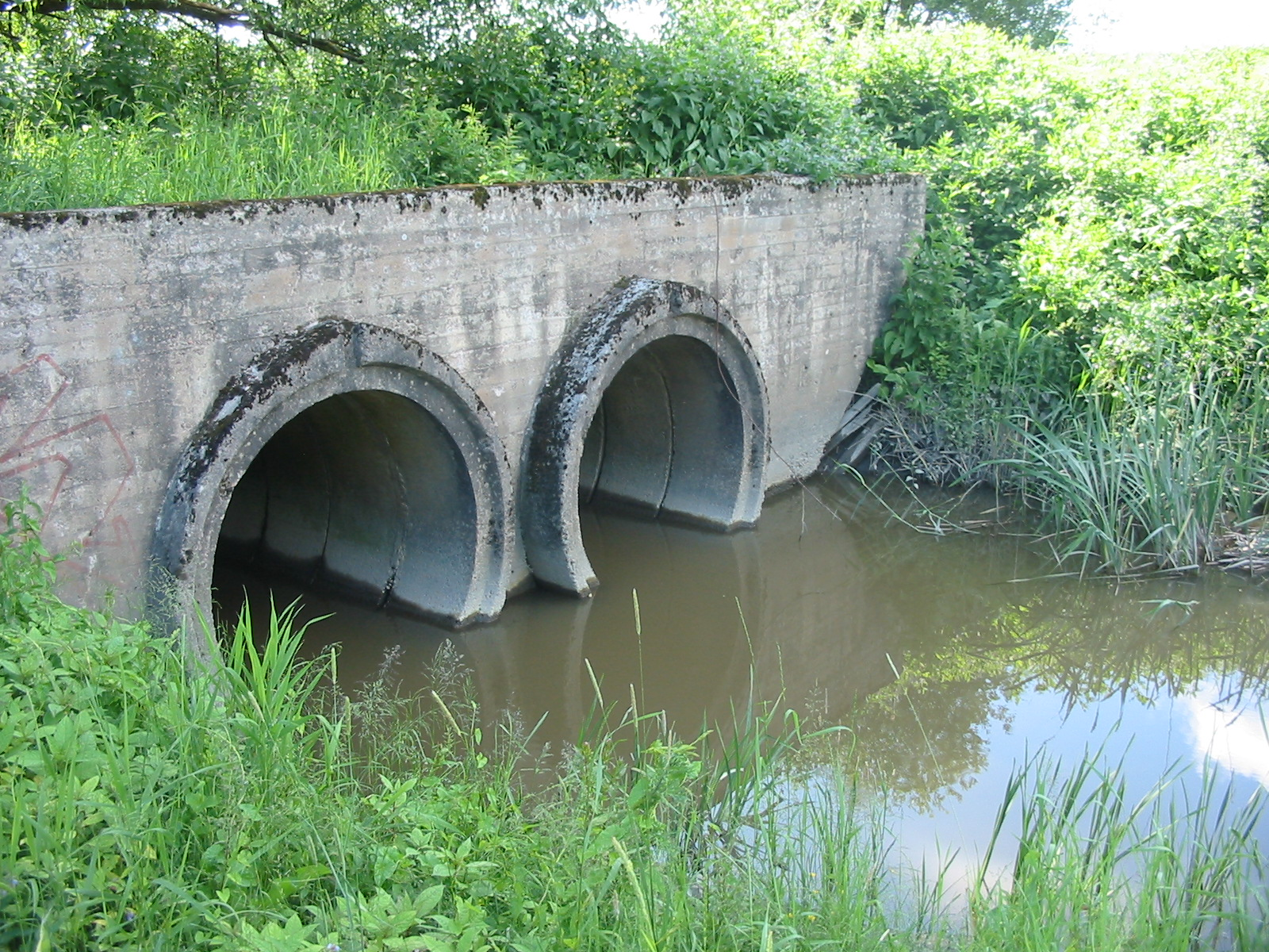 Kuninkoja in Pahaniemi, Turku